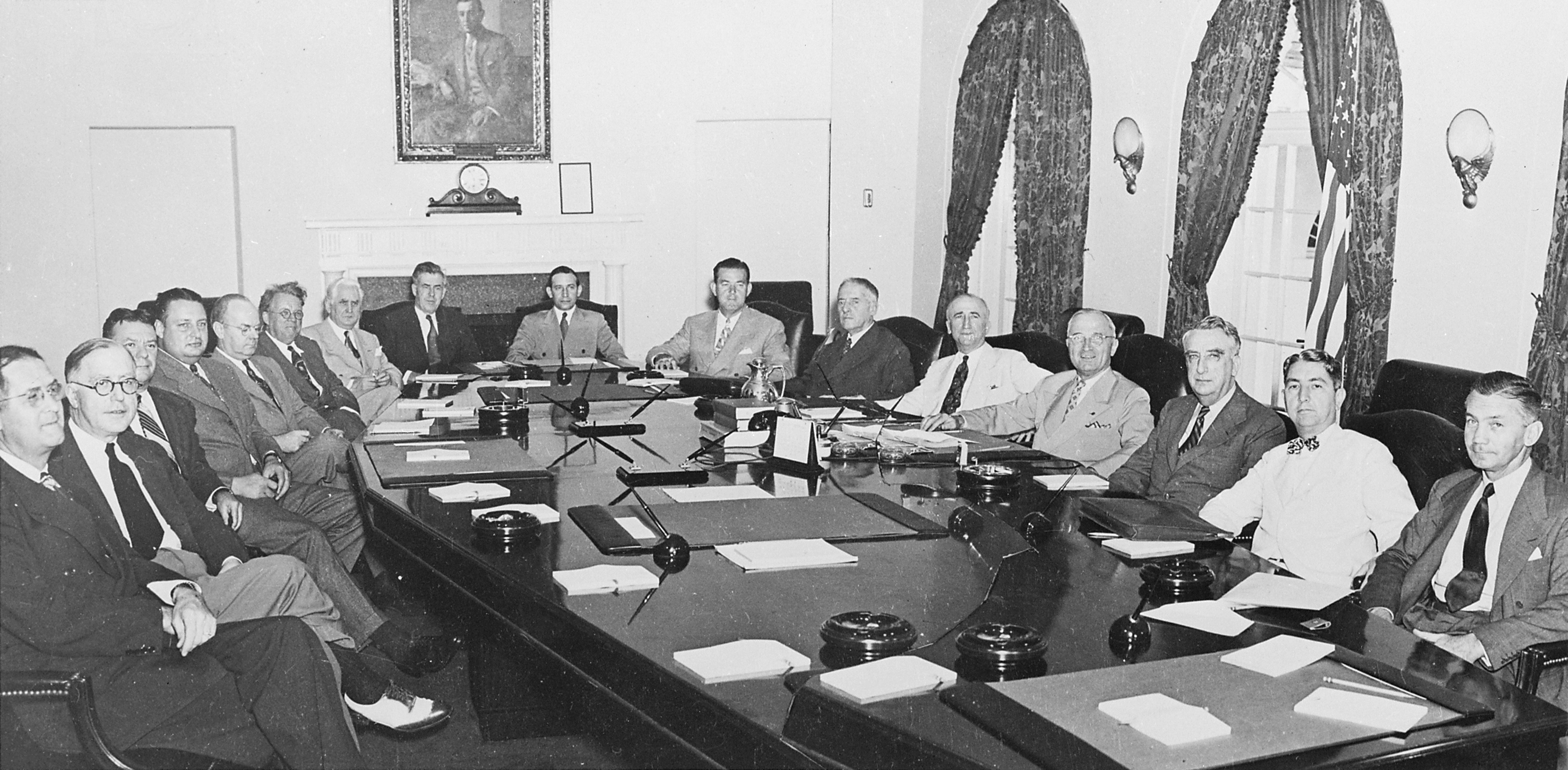 Scope and content: Photograph of Cabinet meeting at the White House: (from left to right) Secretary of Agriculture Clinton Anderson; Secretary of Labor Lewis Schwellenbach; John Blandford, Jr. of the National Housing Agency; Julius Krug of the War Production Board; John Snyder of the Office of War Mobilization and Reconversion; William Davis of the Office of Economic Stabilization; Leo Crowley of the Foreign Economic Administration; Secretary of Commerce Henry Wallace; Under Secretary of the Interior Abe Fortas; Postmaster General Robert Hannegan; Secretary of War Henry Stimson; Secretary of State James Byrnes; the President; Secretary of the Treasury Fred Vinson; Attorney General Tom Clark; Secretary of the Navy James Forrestal.